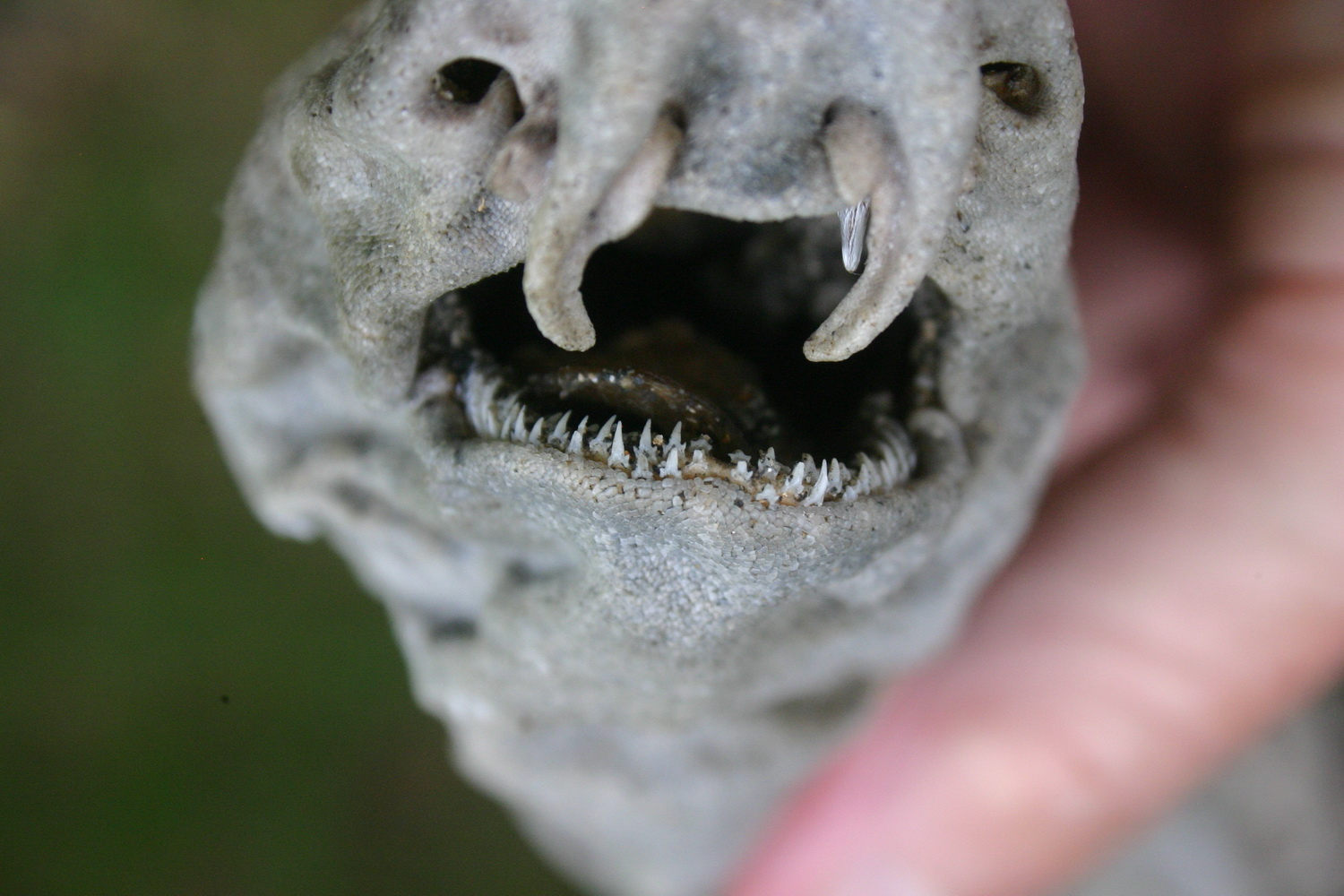 Poroderma pantherinum - Leopard catshark - wind-dried - Nature's Valley, South Africa